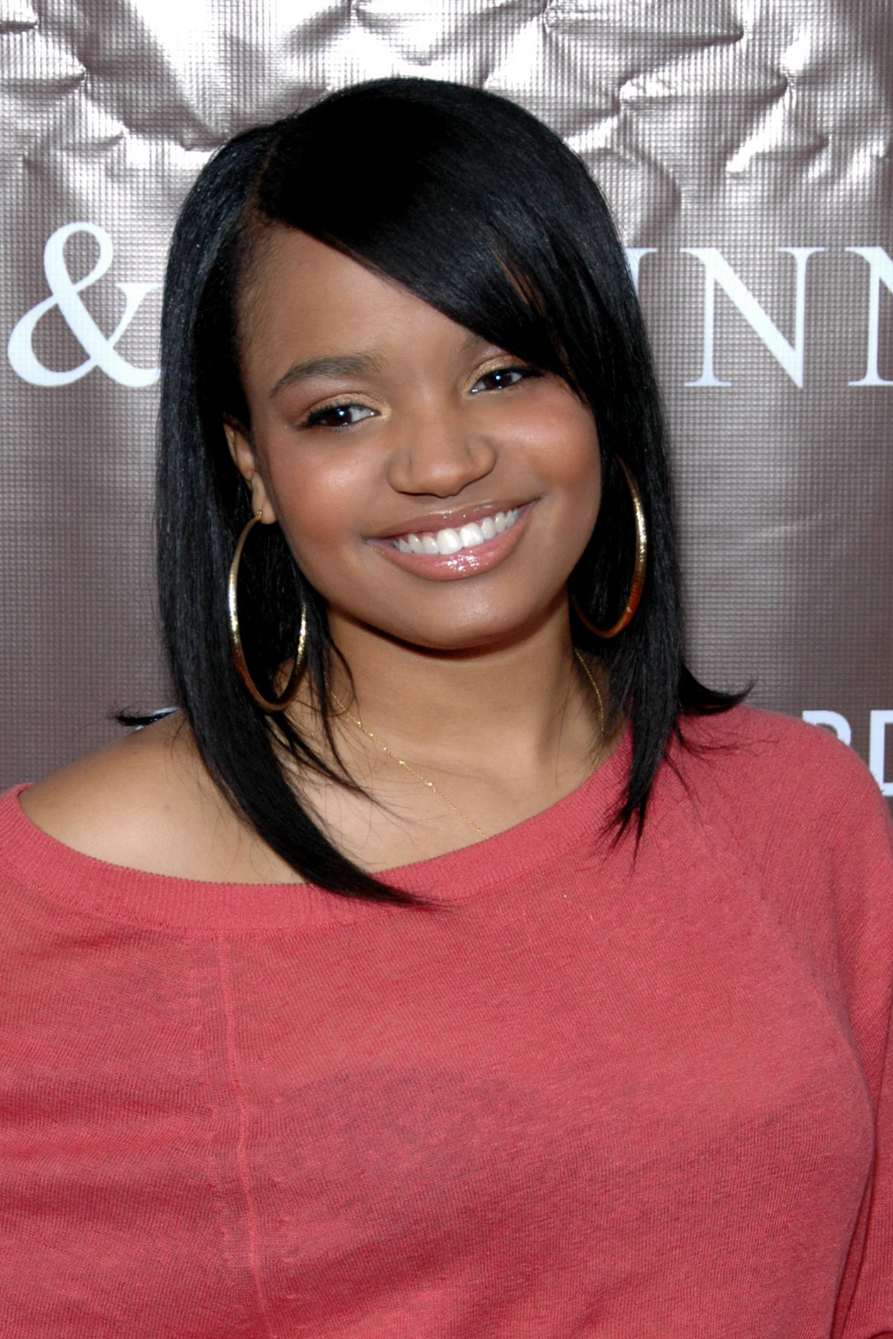 Kyla Pratt attending the 35th Birthday of Claudia Jordan at Boulevard 3, Hollywood, CA 04-13-08